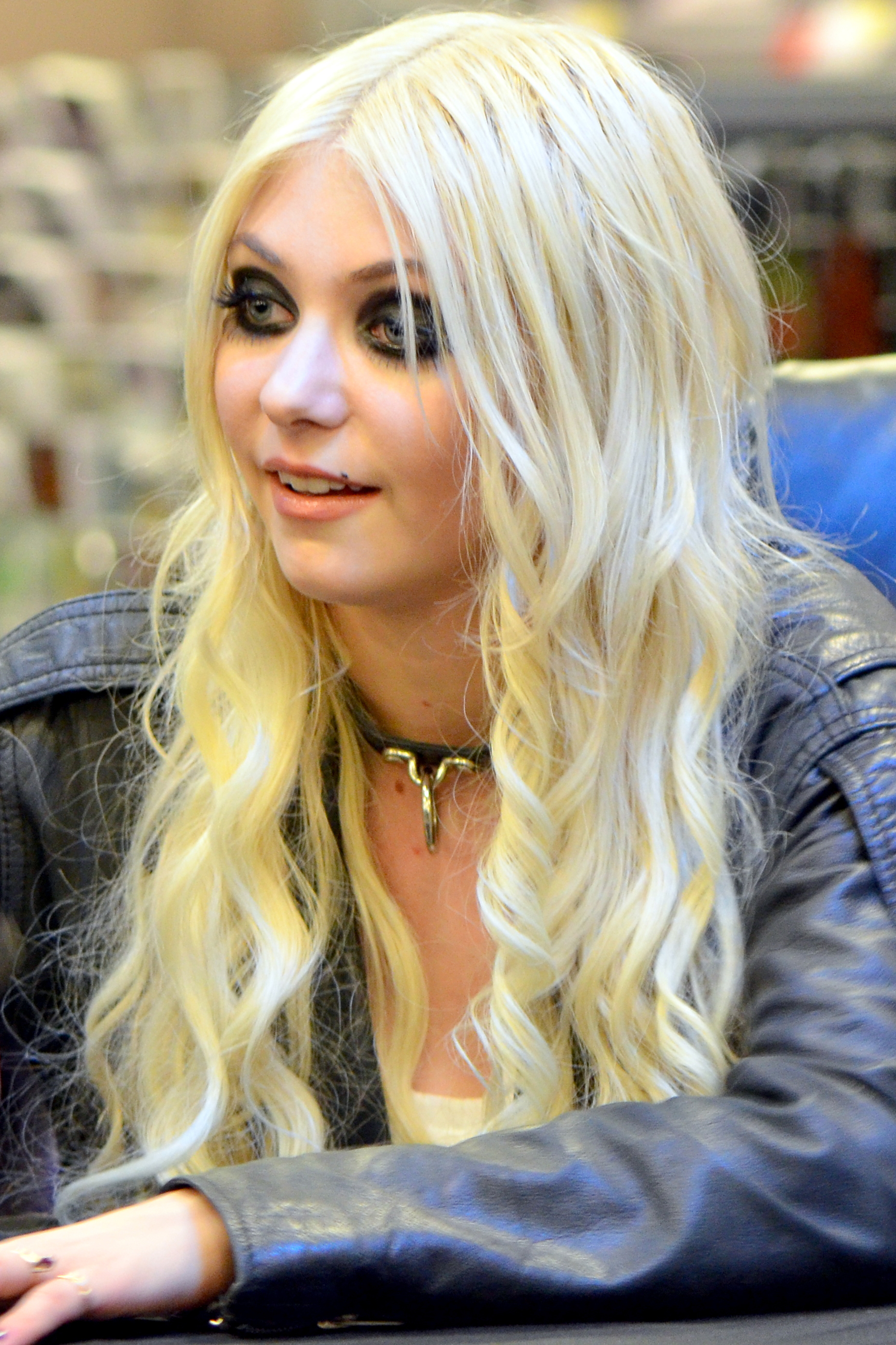 Taylor Momsen on the Light Me Up Tour in April 2011